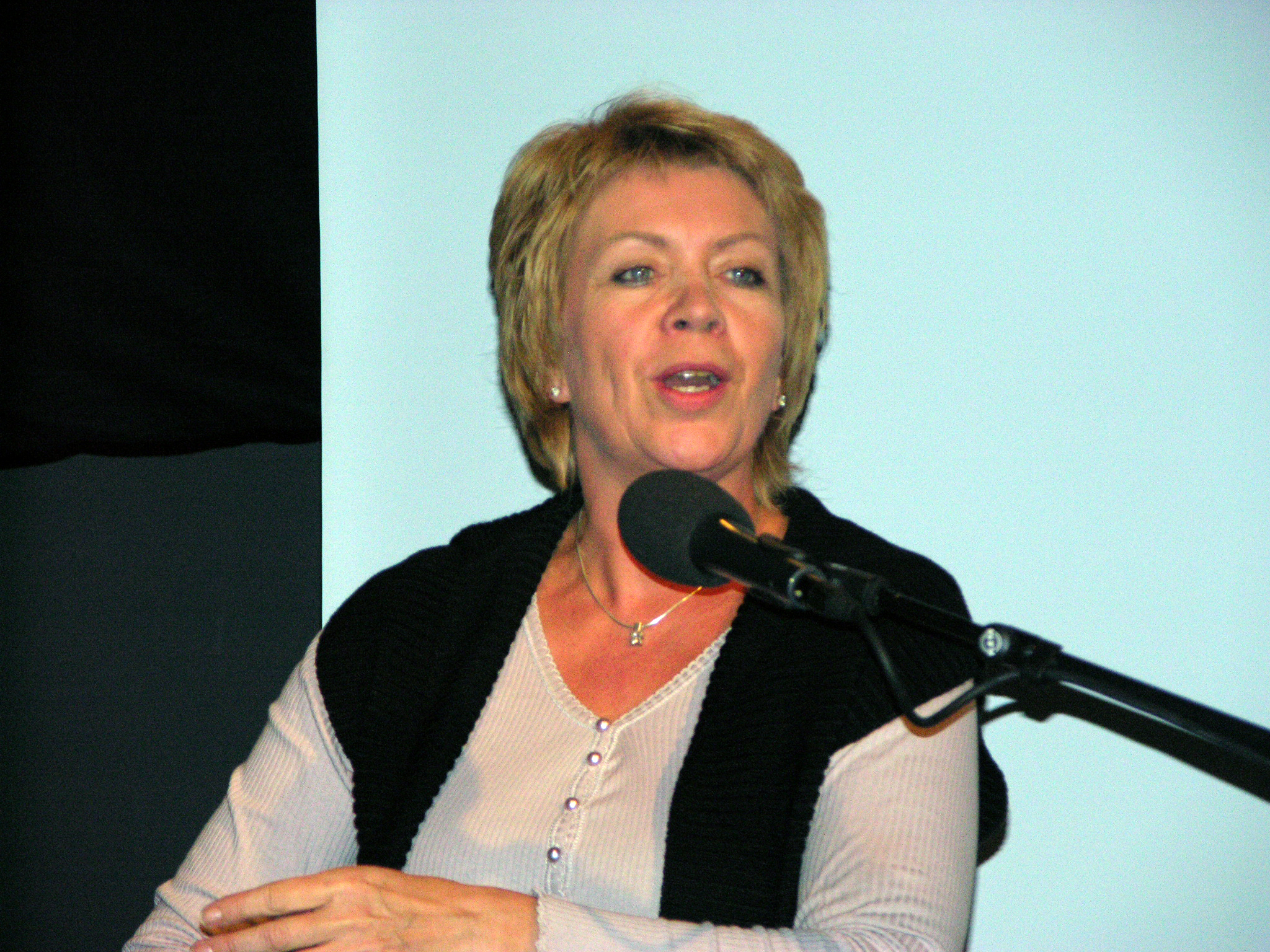 Norwegian minister of petroleum and energy Åslaug Marie Haga addressing the CDP (Carbon Disclosure Project) Seminar at Oslo's Nobel Peace Centre.